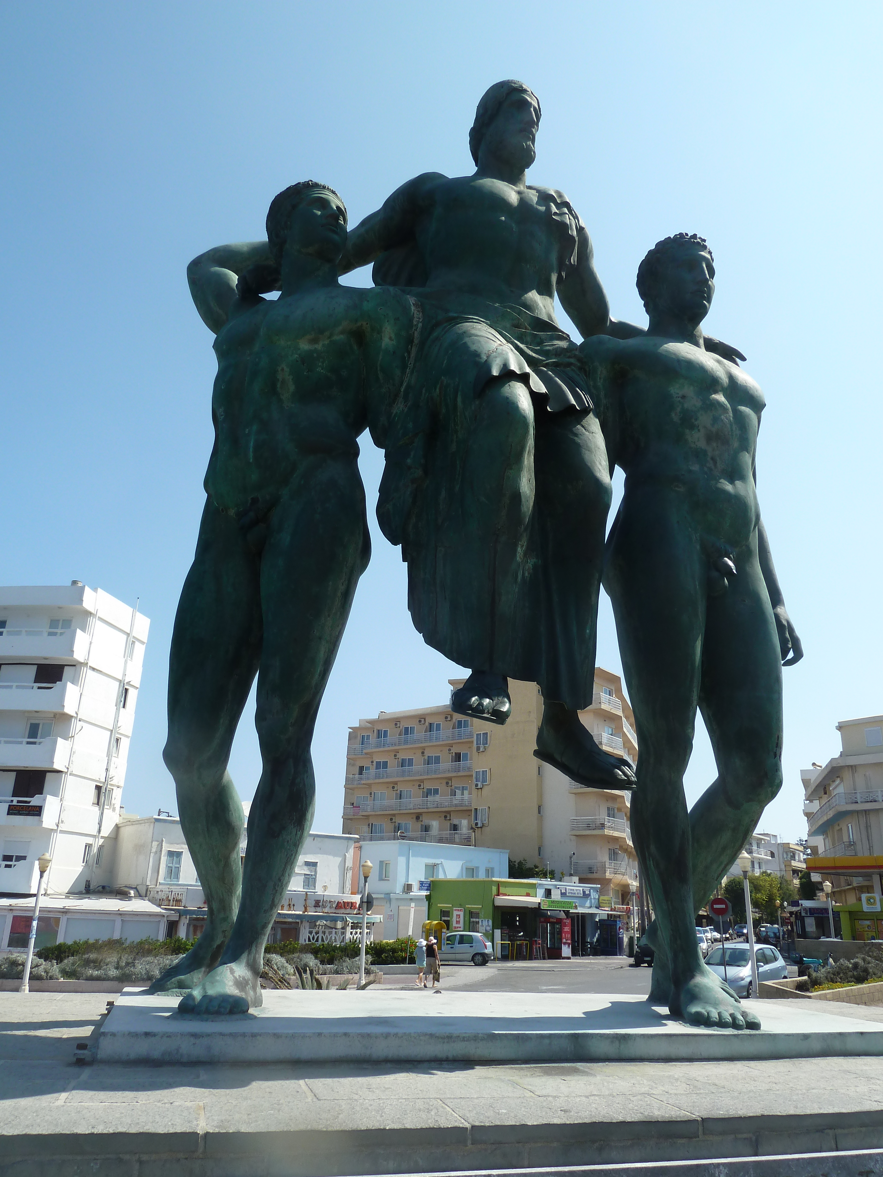 Rhodes city, Rhodes, Greece. Greeks